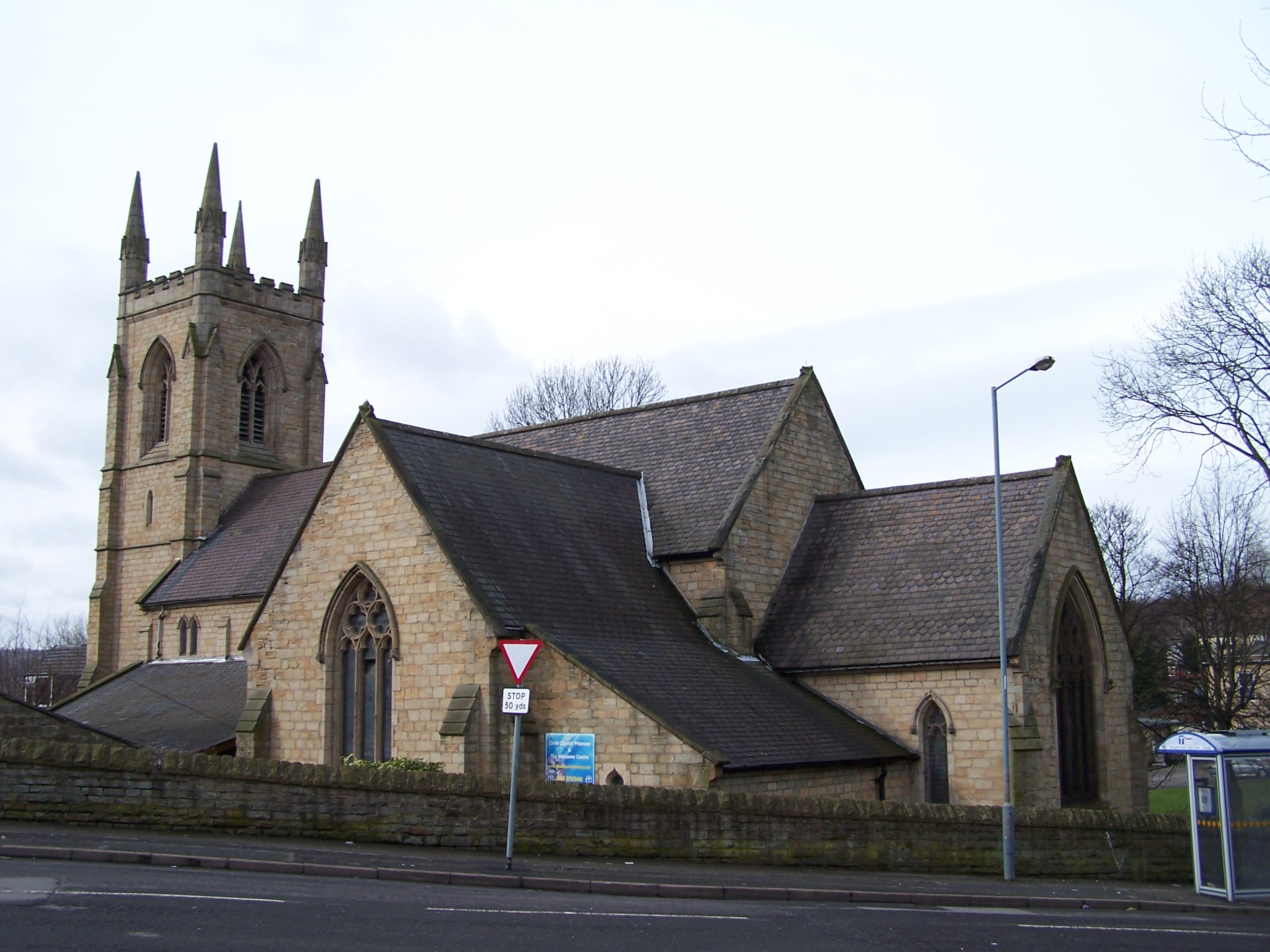 Christ Church, Pitsmoor, Sheffield - 3, near to Sheffield, Great Britain. This view is from Nottingham Street. For more views of the Church and the Vicarage see ... SK3589 : Christ Church, Pitsmoor, Sheffield - 1 SK3589 : Christ Church, Pitsmoor, Sheffield - 2 SK3589 : Vicarage, Christ Church, Pitsmoor, Sheffield